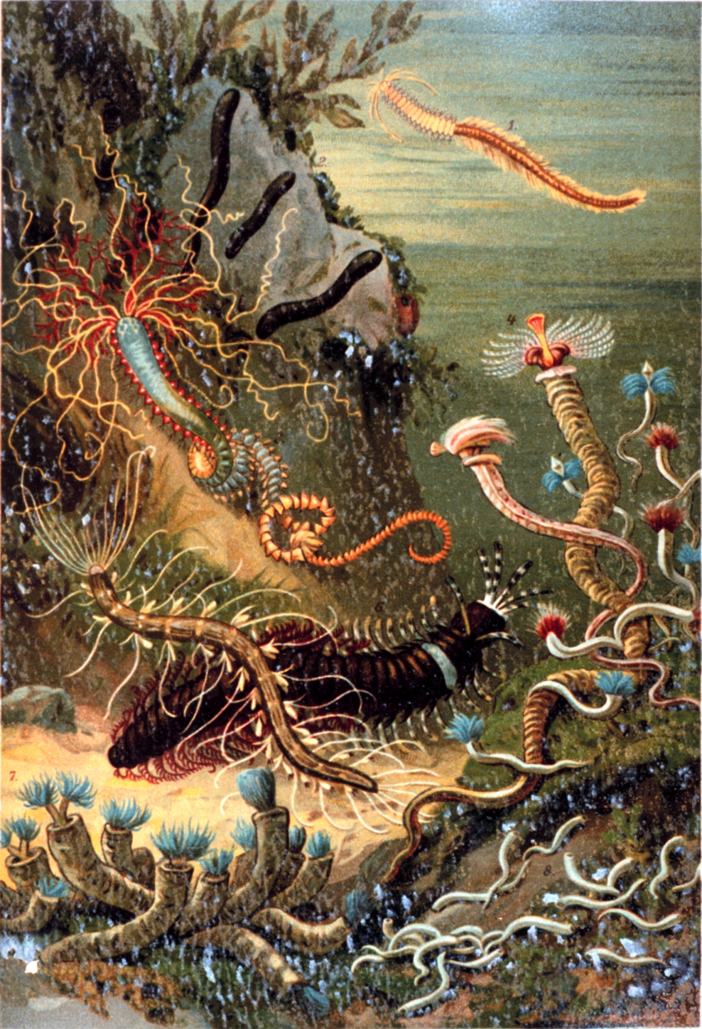 "Borstenwurmer des Meeres". A variety of marine worms. In: "Das Meer" by Matthias Jacob Schleiden, 1804-1881. P. 446. Library Call Number QH91.S23 1888. Image ID: libr0409, Treasures of the NOAA Library Collection NOAA-Bild